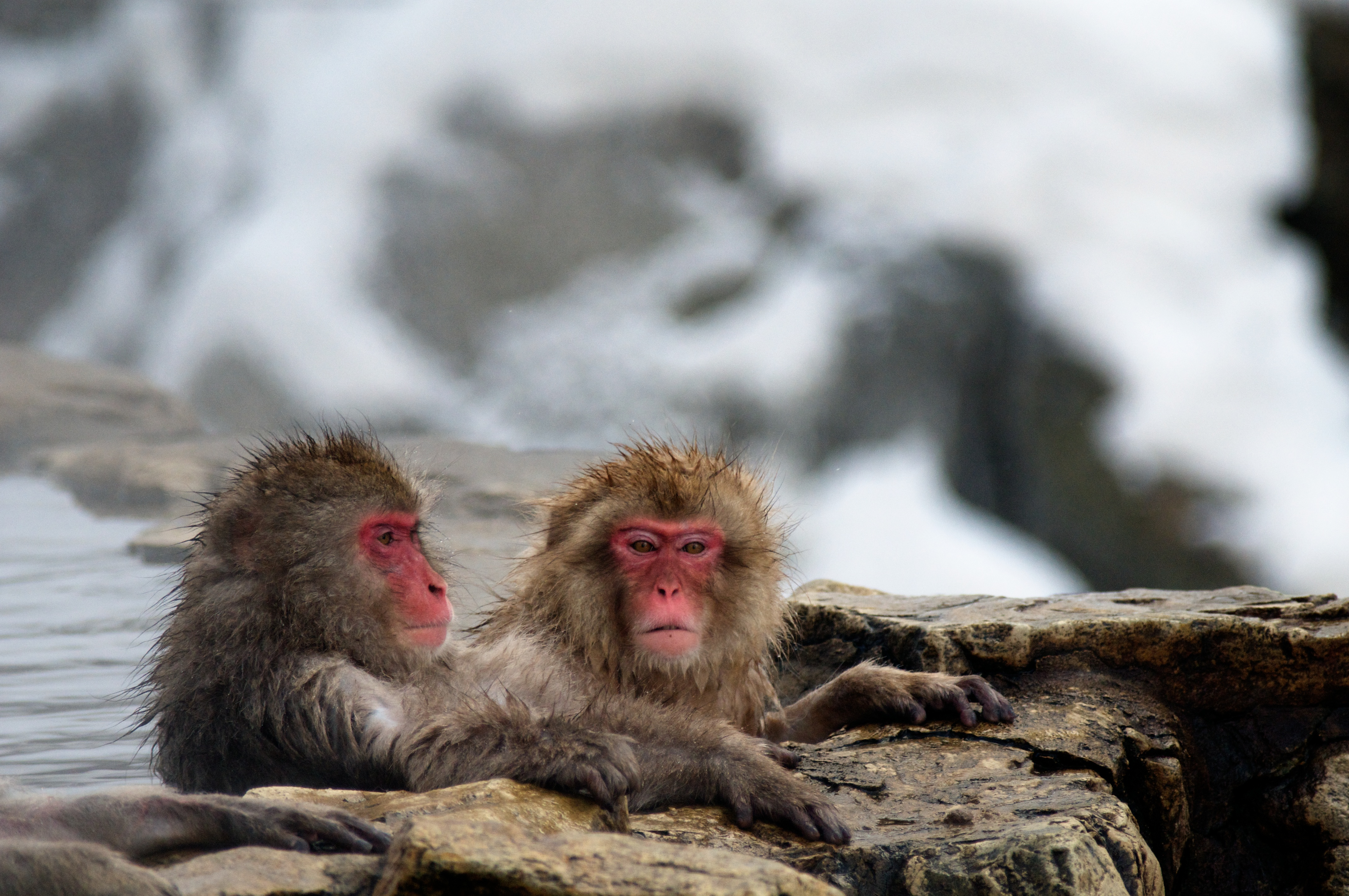 Taken at the Jigokudani (yaen-koen) Monkey Park near Nagano Japan.